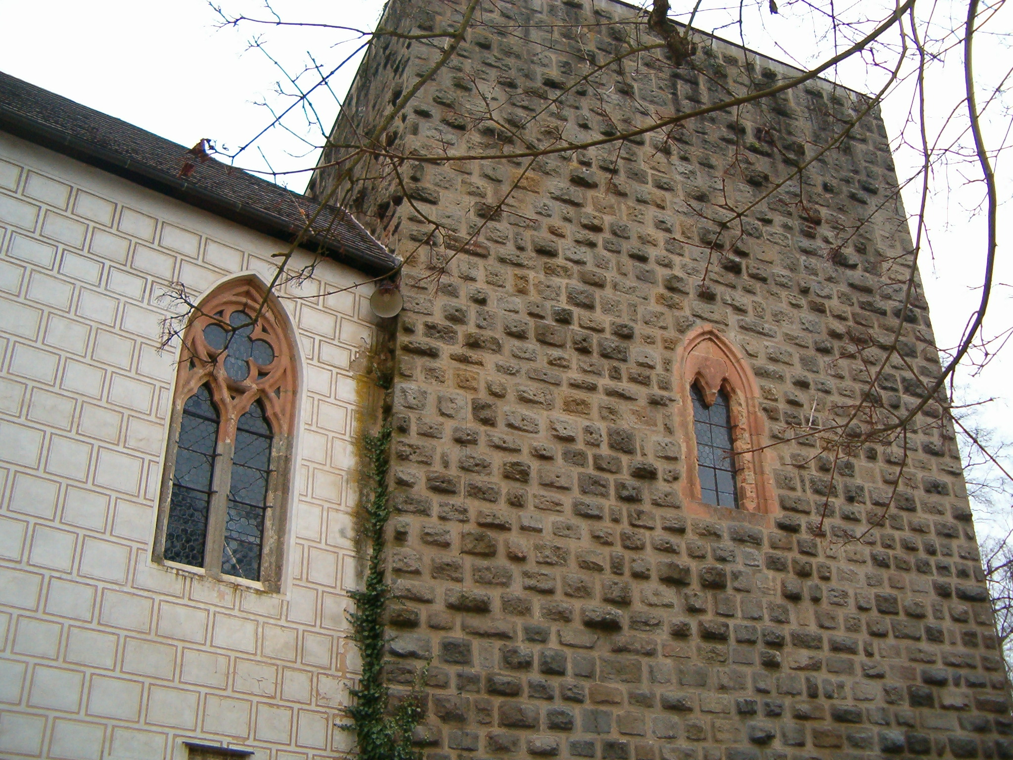 Castle Zvíkov, South Bohemia region By Chmee2´s family